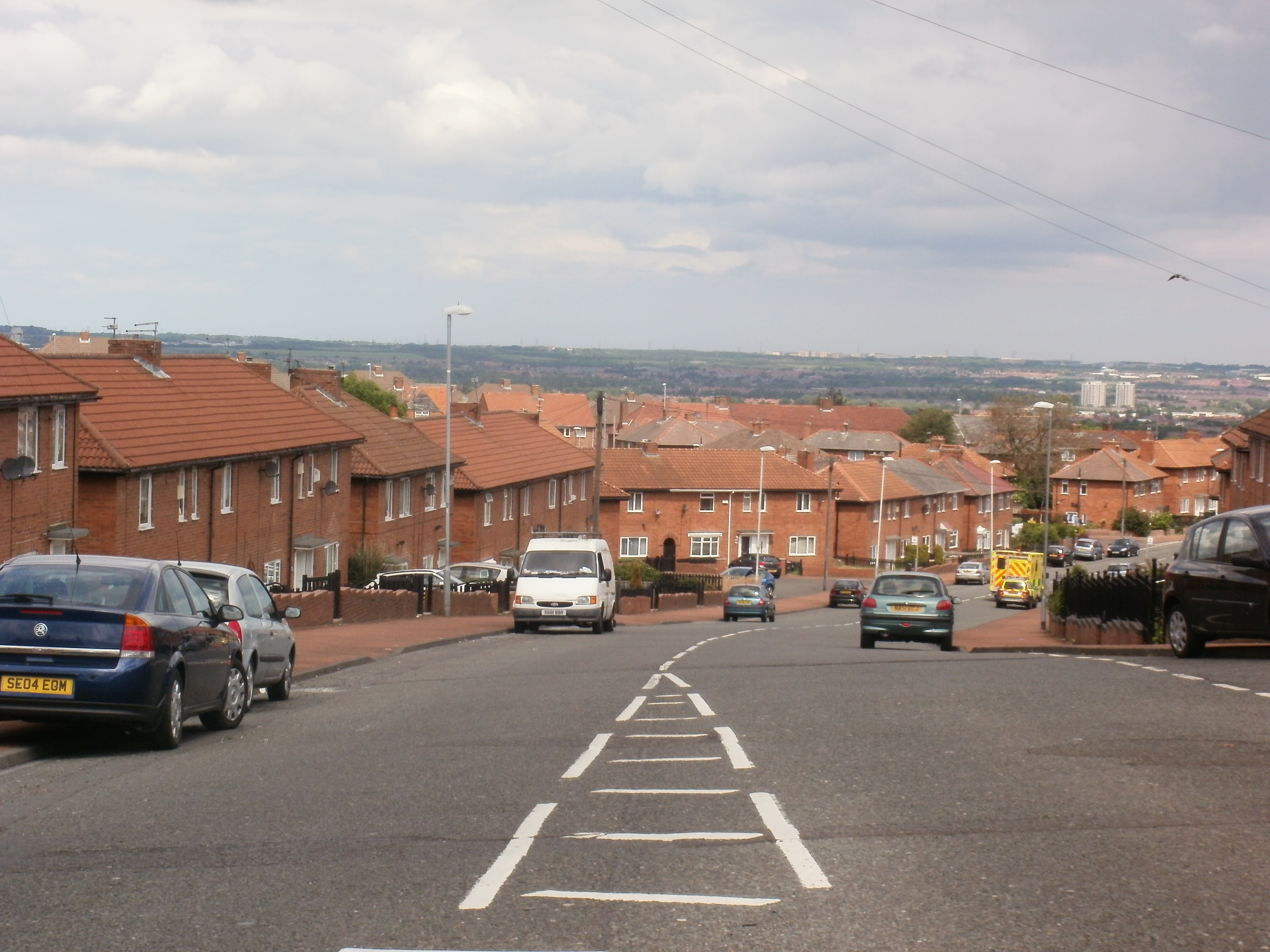 Hendon Road, Deckham, is one of the main streets in the suburb and encloses a large council estate. The view in the background is eastern Newcastle upon Tyne.